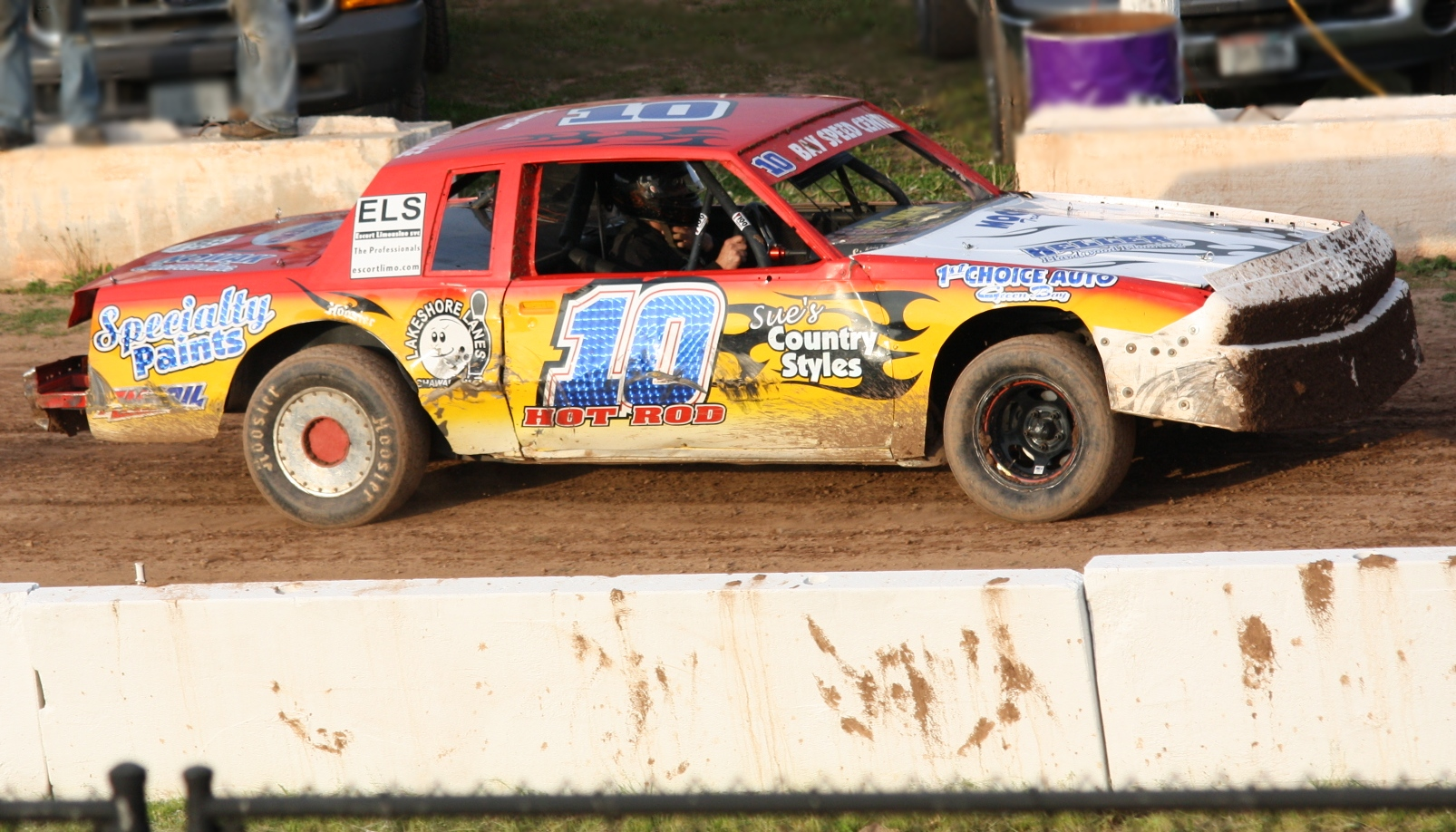 IMCA Stockcar for 2008 IMCA national champion "Hot" Rod Snellenberger taken at Shawano County (Wisconsin) Fairgrounds